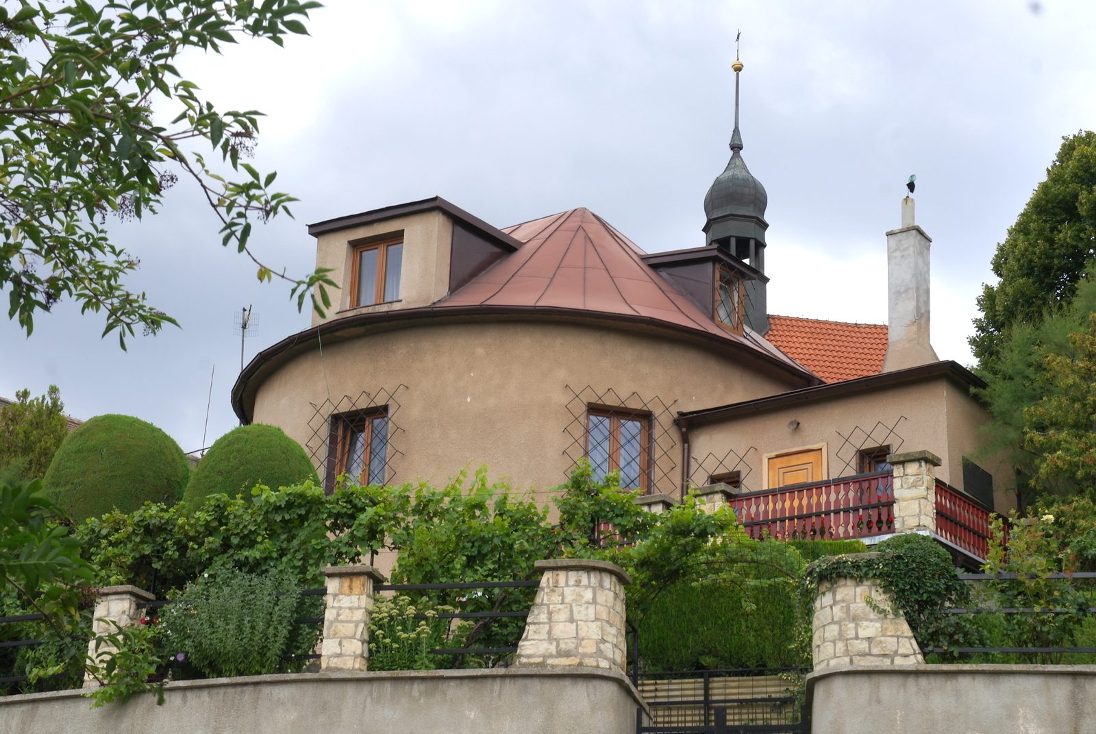 Castle Chvatěruby, house no. 6, originally rounded bastion on the south side of the fortifications of castle from 15th century, Chvatěruby 1